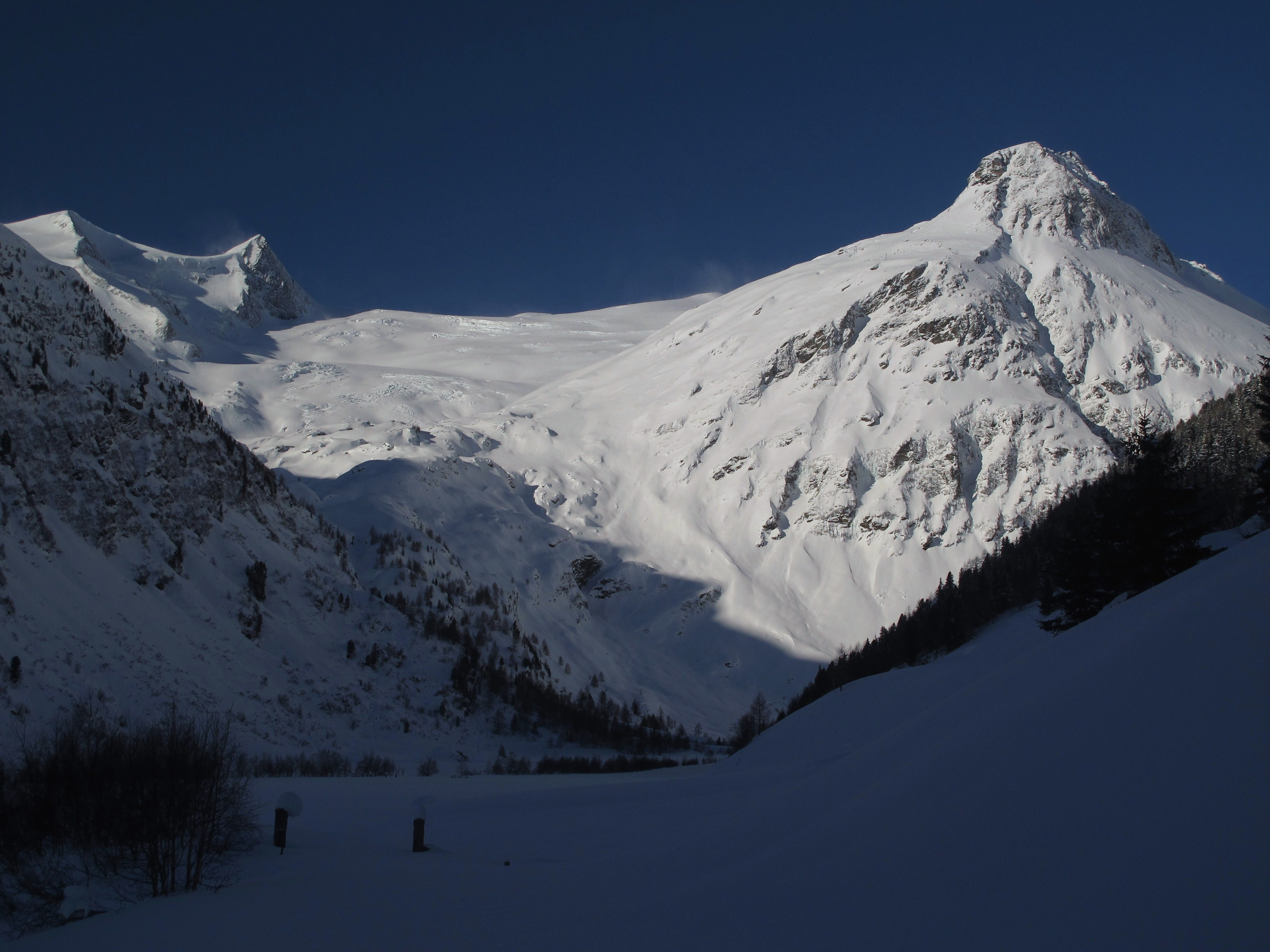 Contrast between shady and sunny snowy slopes in Venediger Alps